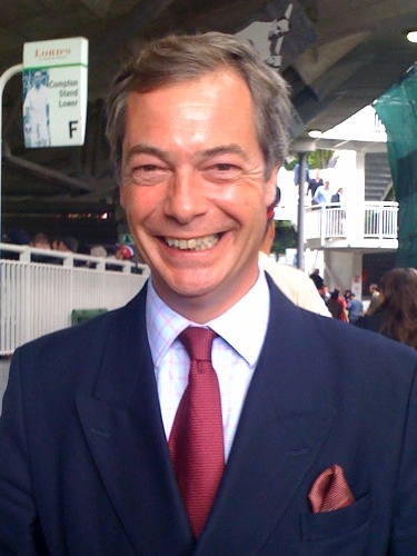 Nigel Farage at Lord's cricket ground, London, summer 2009, Sunday of the Ashes Test match